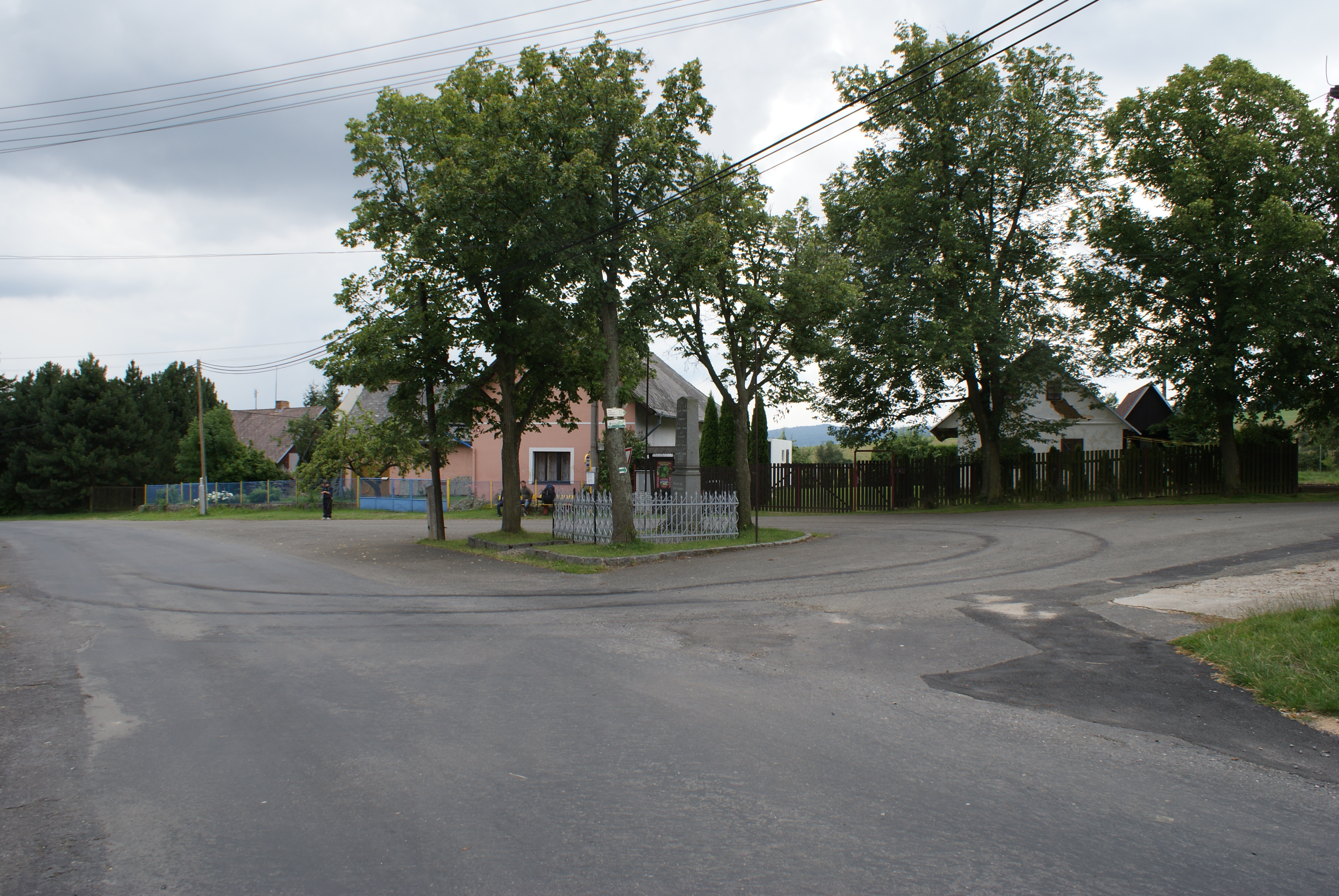 Buková (Věšín), Příbram District, Czech Republic, the village common.